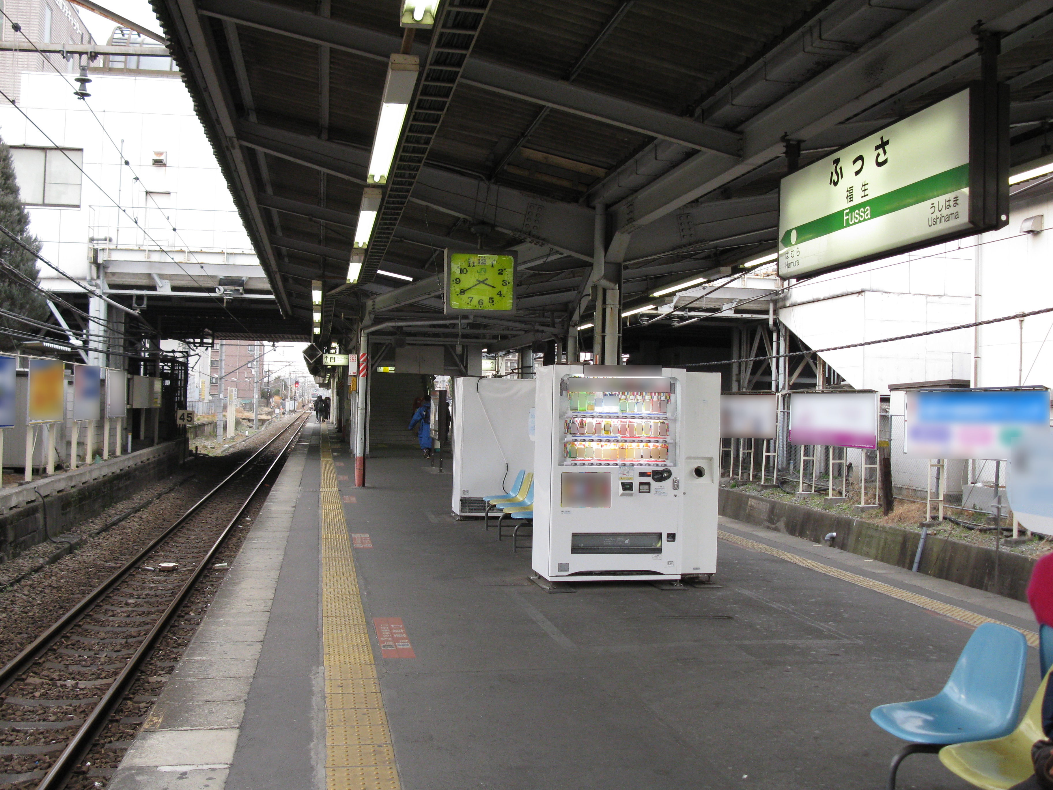 Fussa Station platform (East Japan Railway Ōme Line)